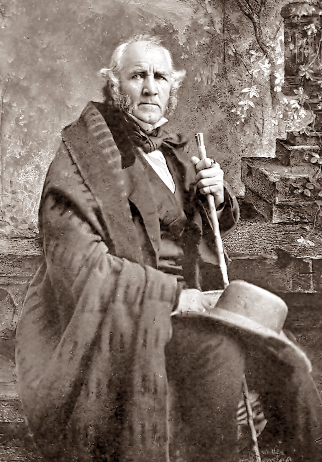 Portrait of General Sam Houston, made in about 1861 by Mathew Brady.